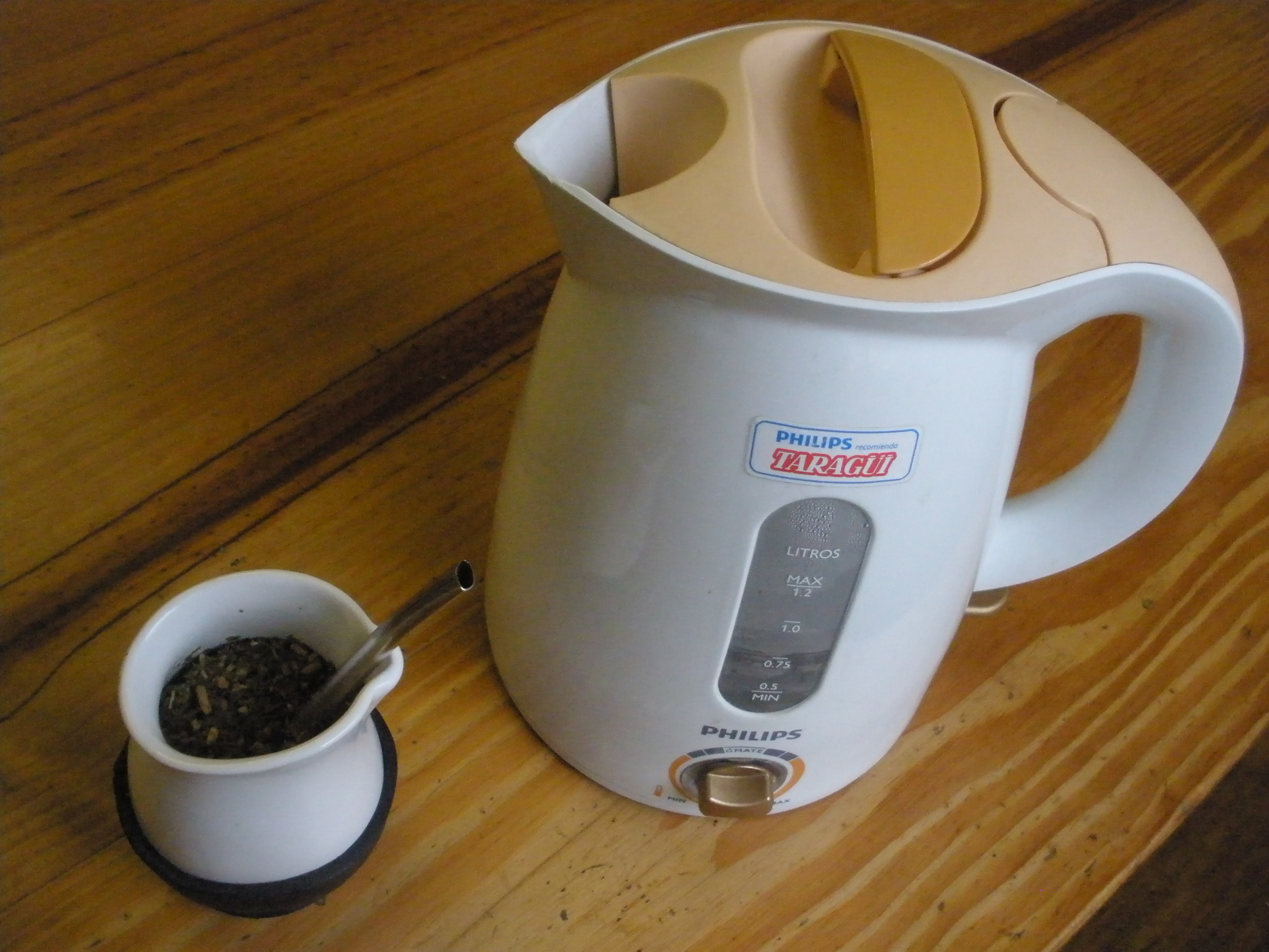 Modern mate or guampa with an electric water boiler in Buenos Aires, Argentina